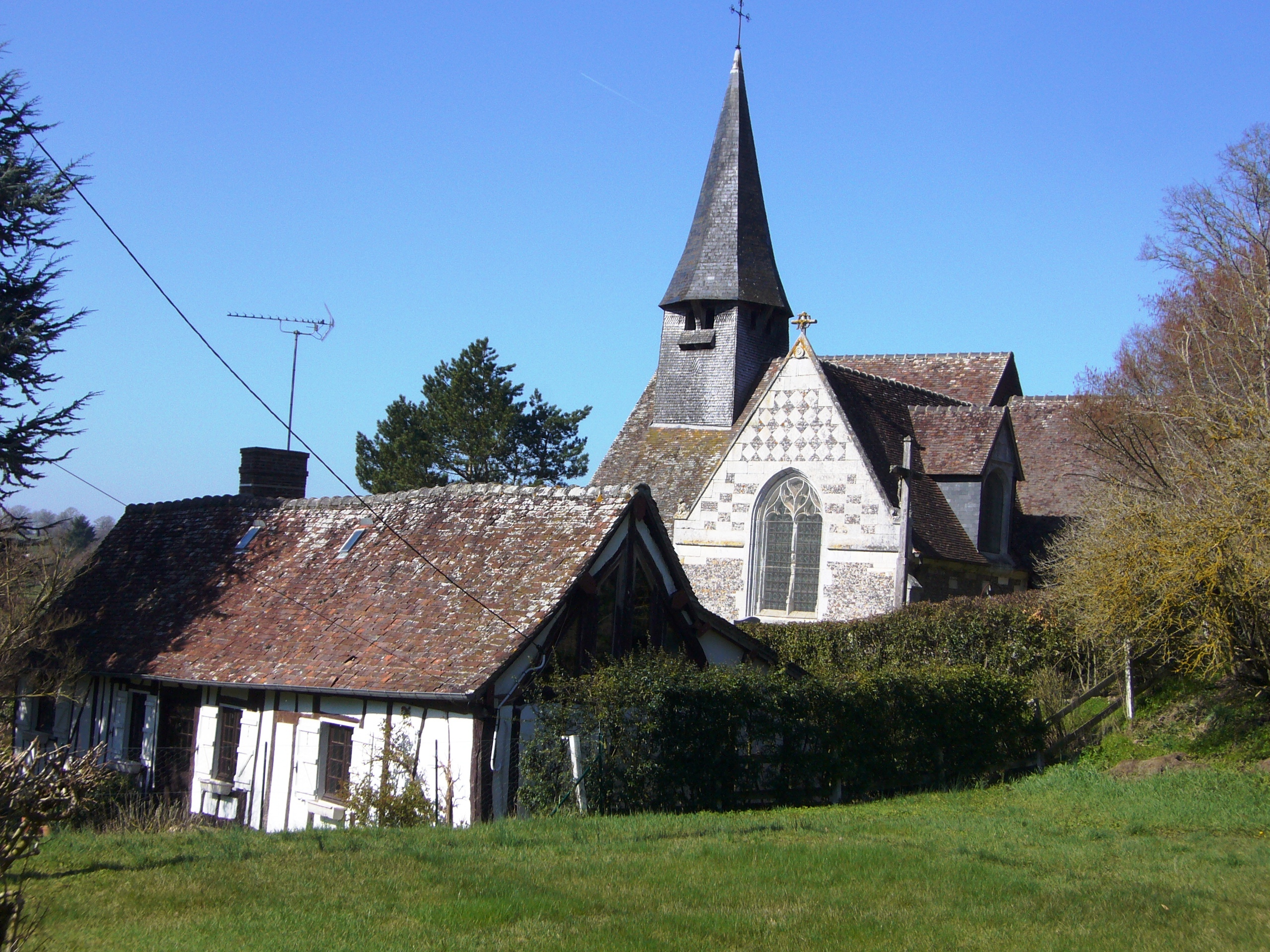 Norman village